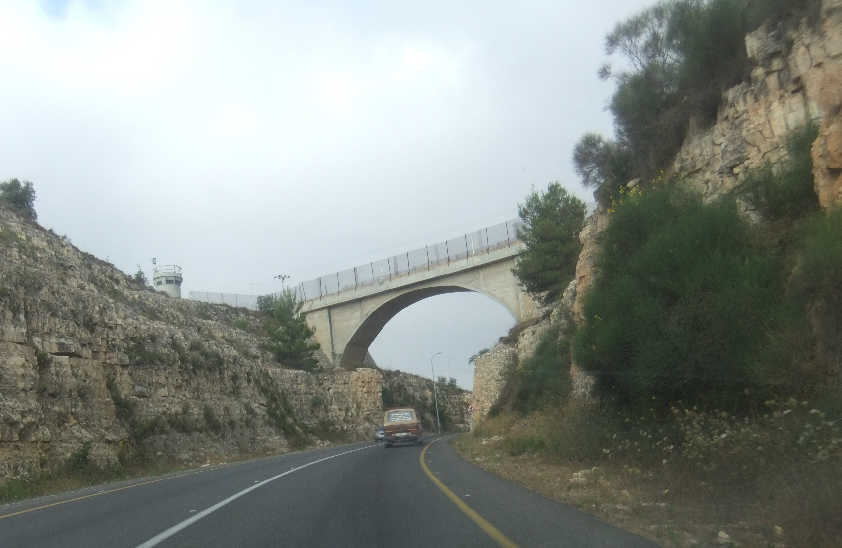 Bir Zeit bridge, connecting Bir Zeit to Atara, above route 465. View from the east. The bridge was a site where palestinians through large stones on Jewish cars passing underneath. Therefore, the large fence on the bridge and the pillbox overlooking the bridge.